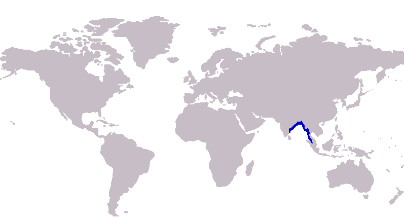 Distribution of the Gangetic whiting, using map based on GDFL image: - based on the file now here File:Galeocerdo cuvier distmap.png.